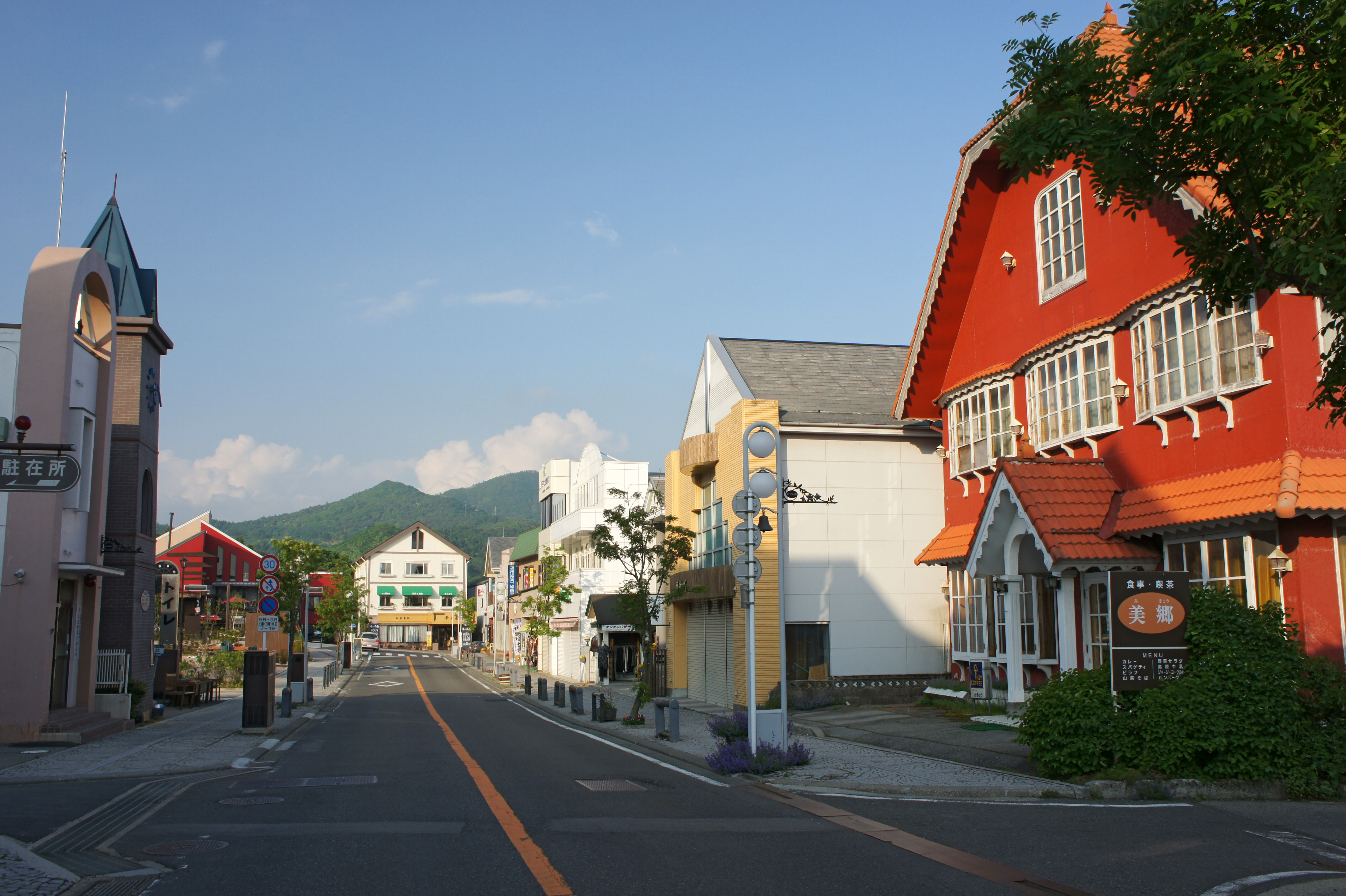 In front of Kiyosato Station, Kiyosato highlands, Hokuto, Yamanashi prefecture, Japan.